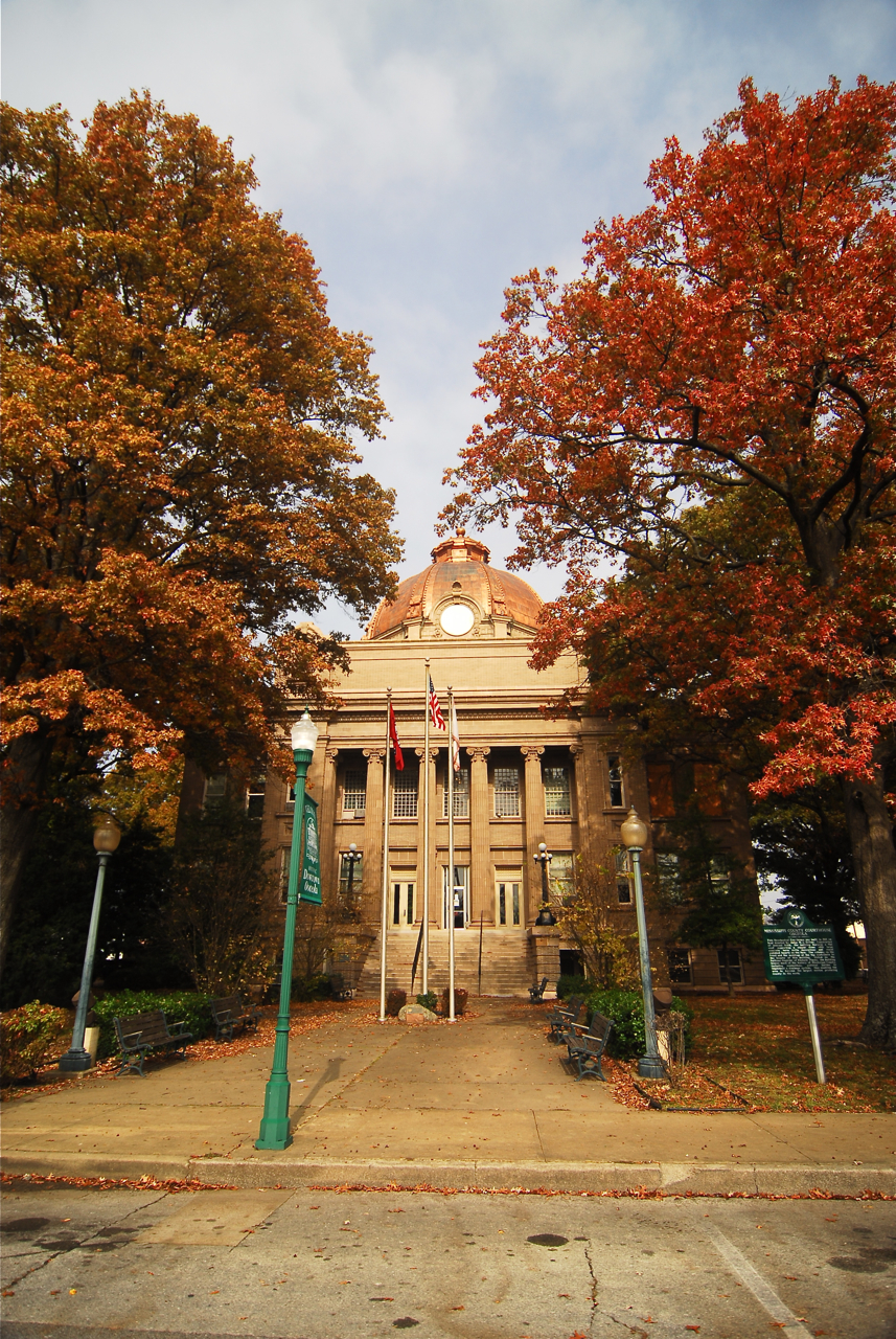 Historic Osceola courthouse from November 2010.